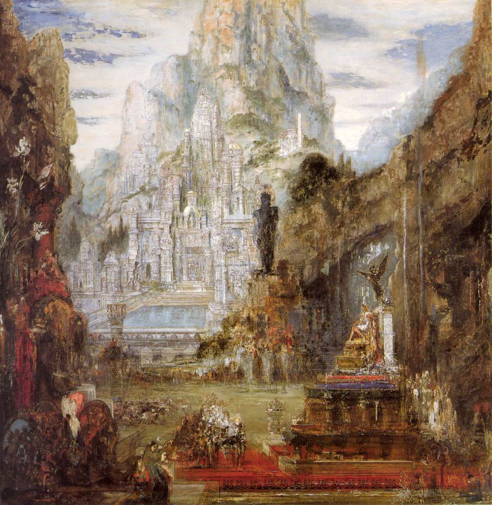 Depicts the victory of Alexander the Great over King Porus in 326 BC